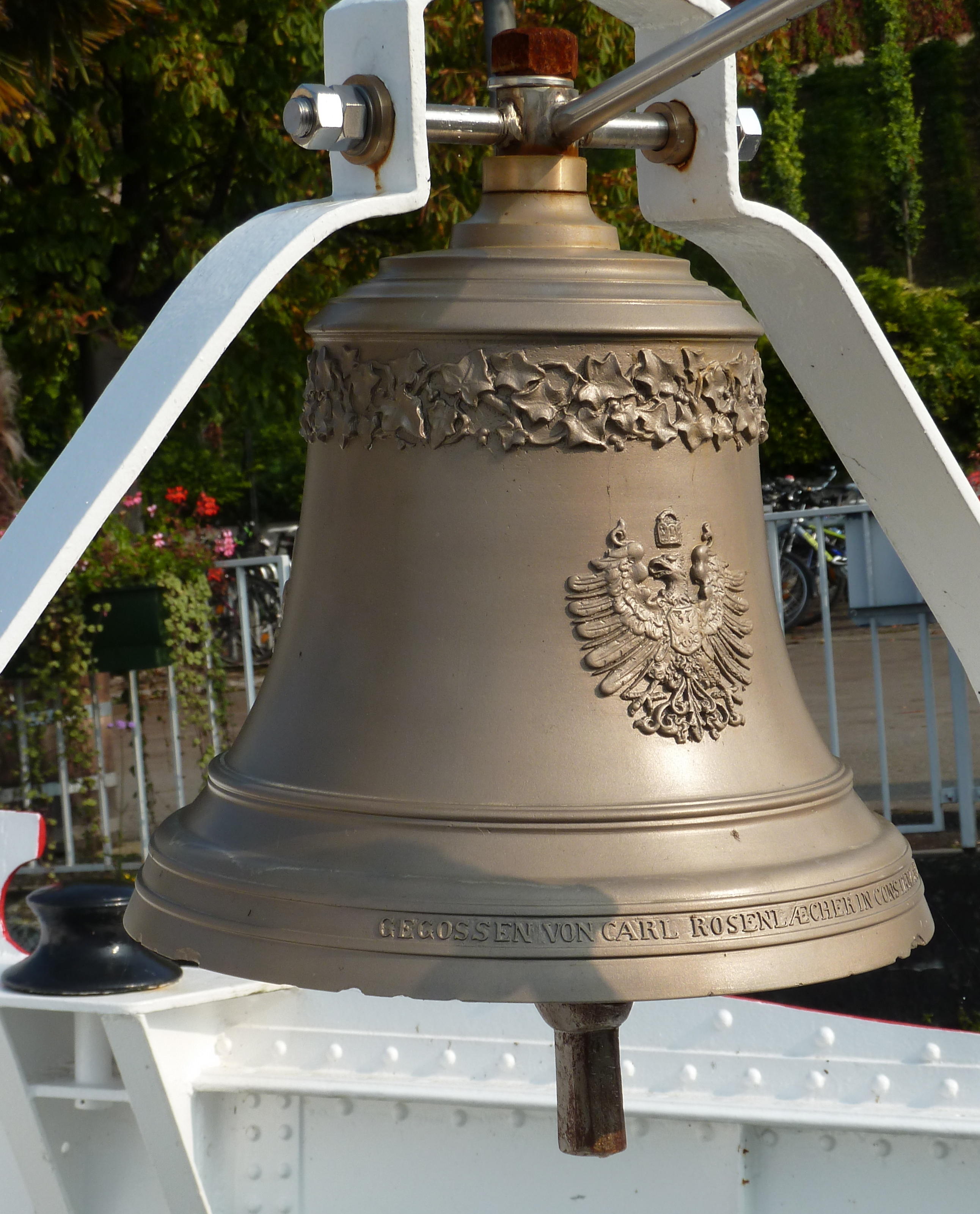 Bell of Kaiser Wilhelm (ship, 1871), now on Karlsruhe (ship, 1937), Lake Constance